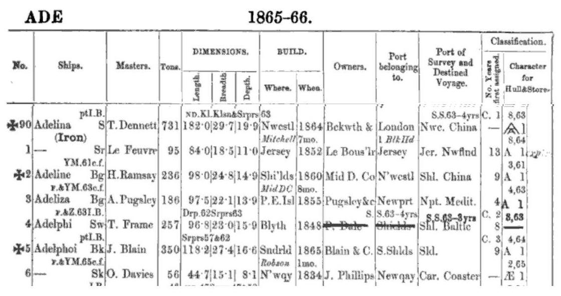 Extract of the Adelphoi (1865) Lloyd's Register of British and Foreign Shipping 1865 journal entry